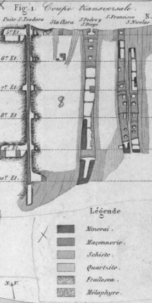 Figure 1. Coupe transversale from Mémoire sur les mines et usines d'Almaden (1878)